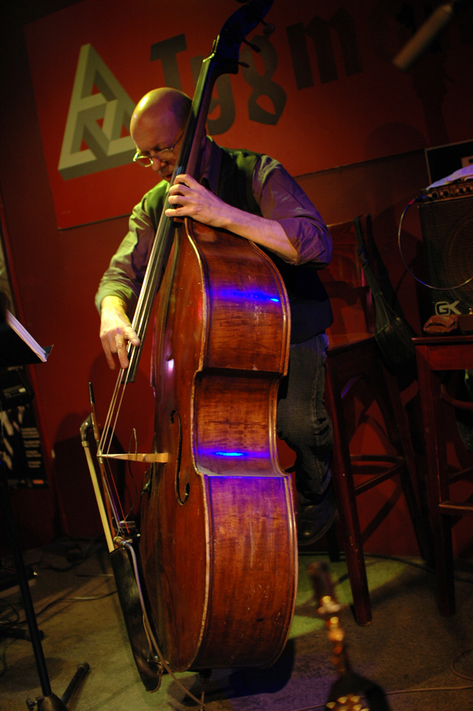 Polish bass player Zbigniew Wegehaupt performing at jazz club Tygmont in Warszawa, Poland. April 2009.